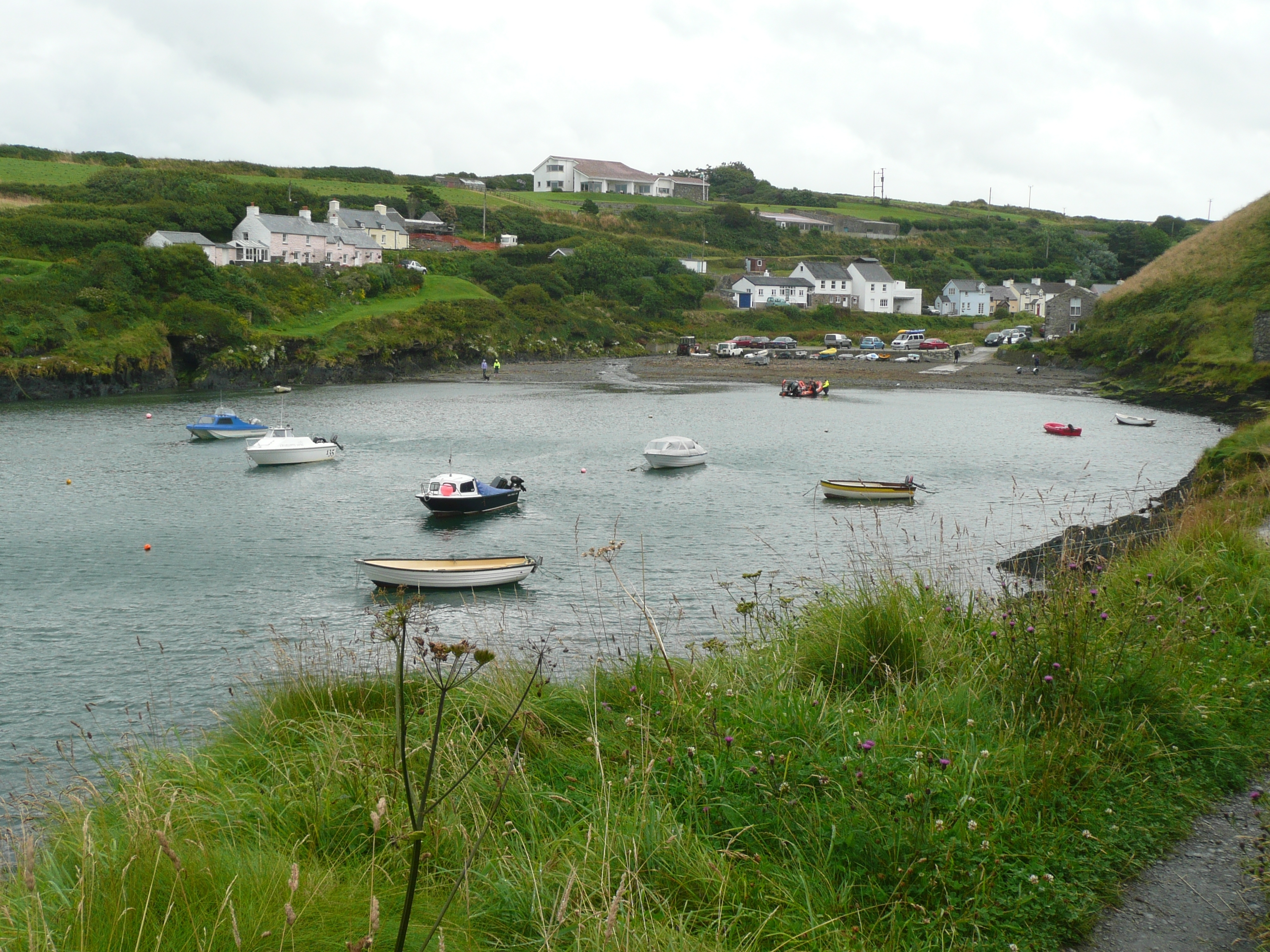 Abercastle